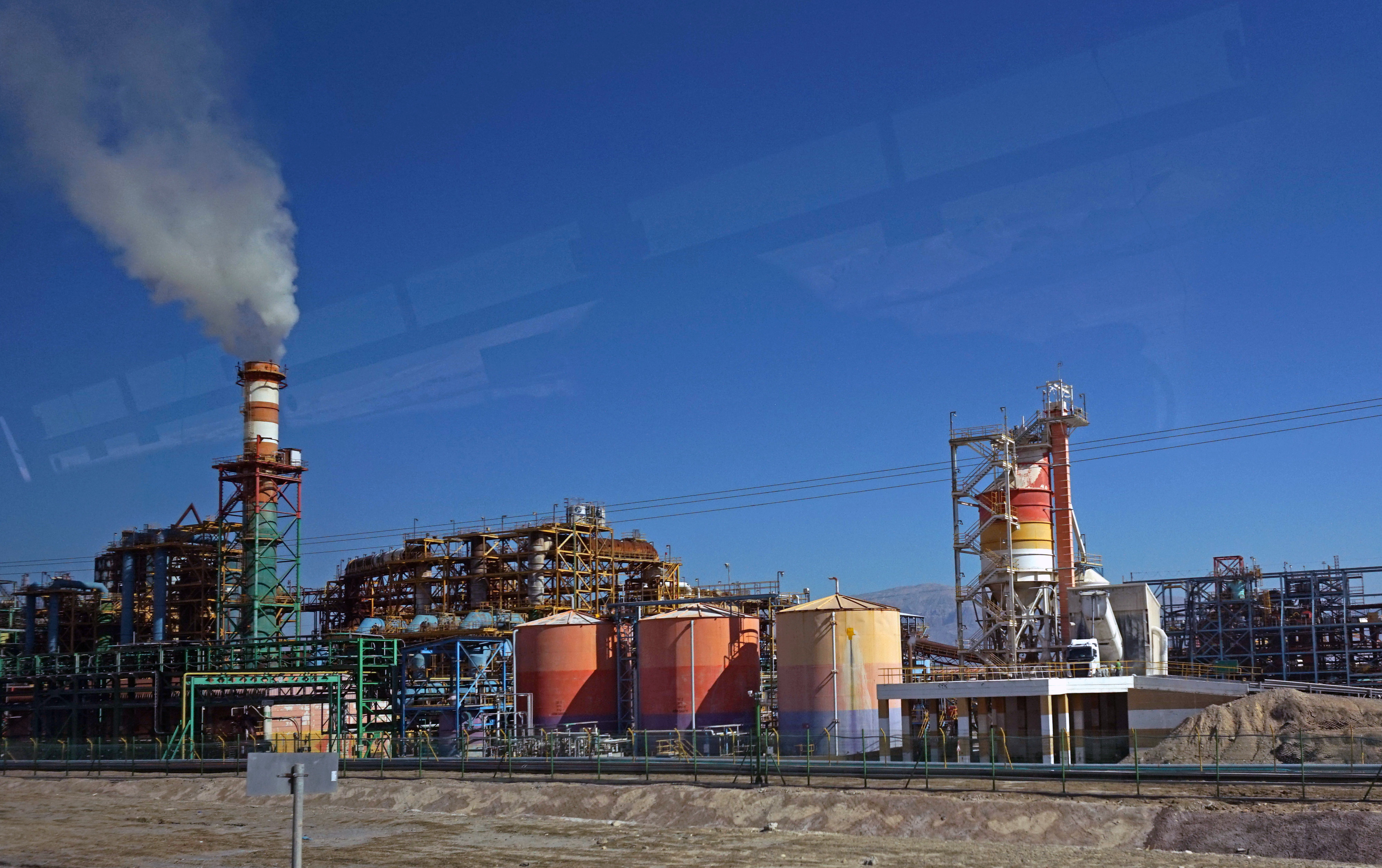 Factory of Dead Sea Works, Israel.This photograph was taken with a Sony ILCE-5000